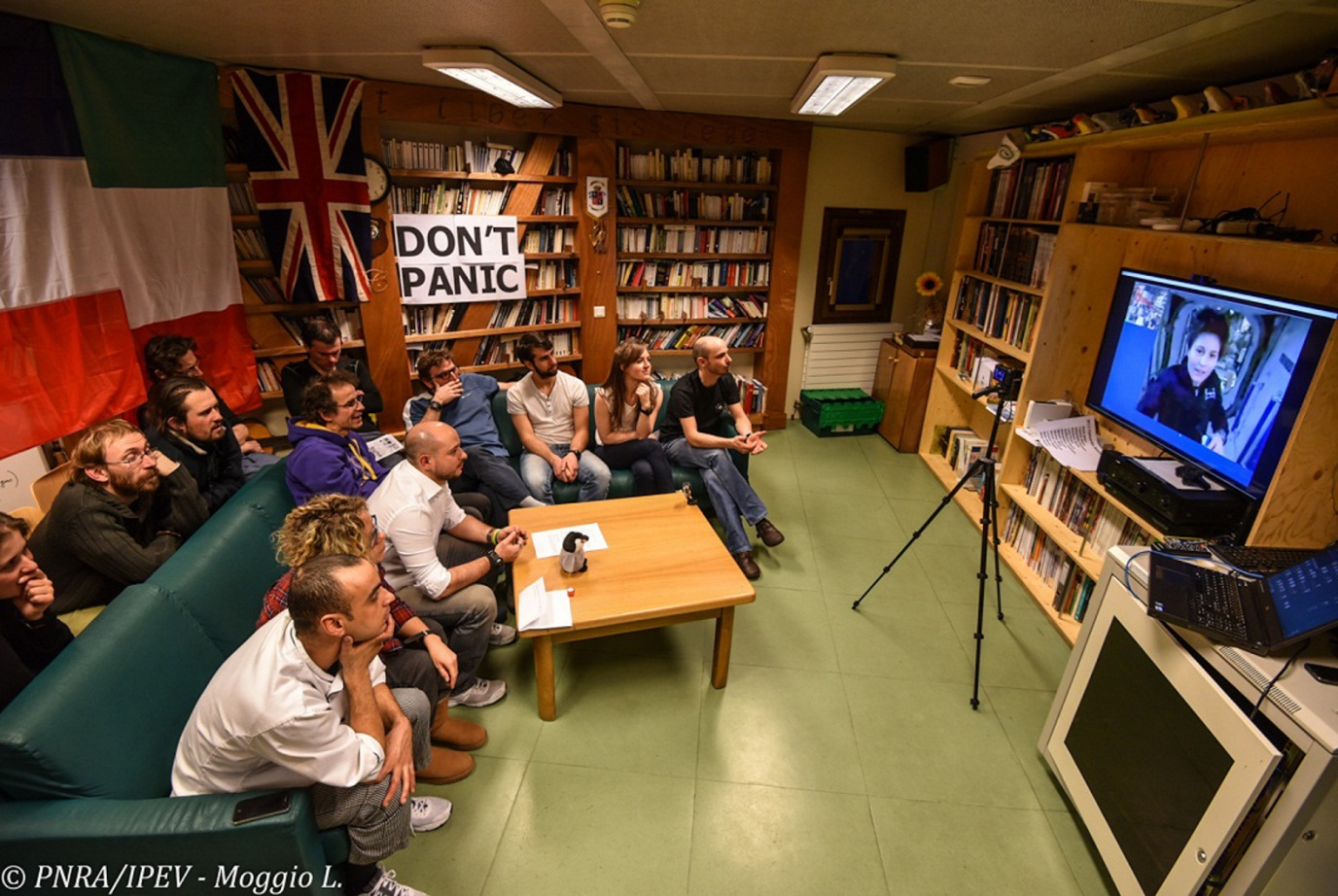 Concordia crew calling ESA astronaut Samantha Cristoforetti in space